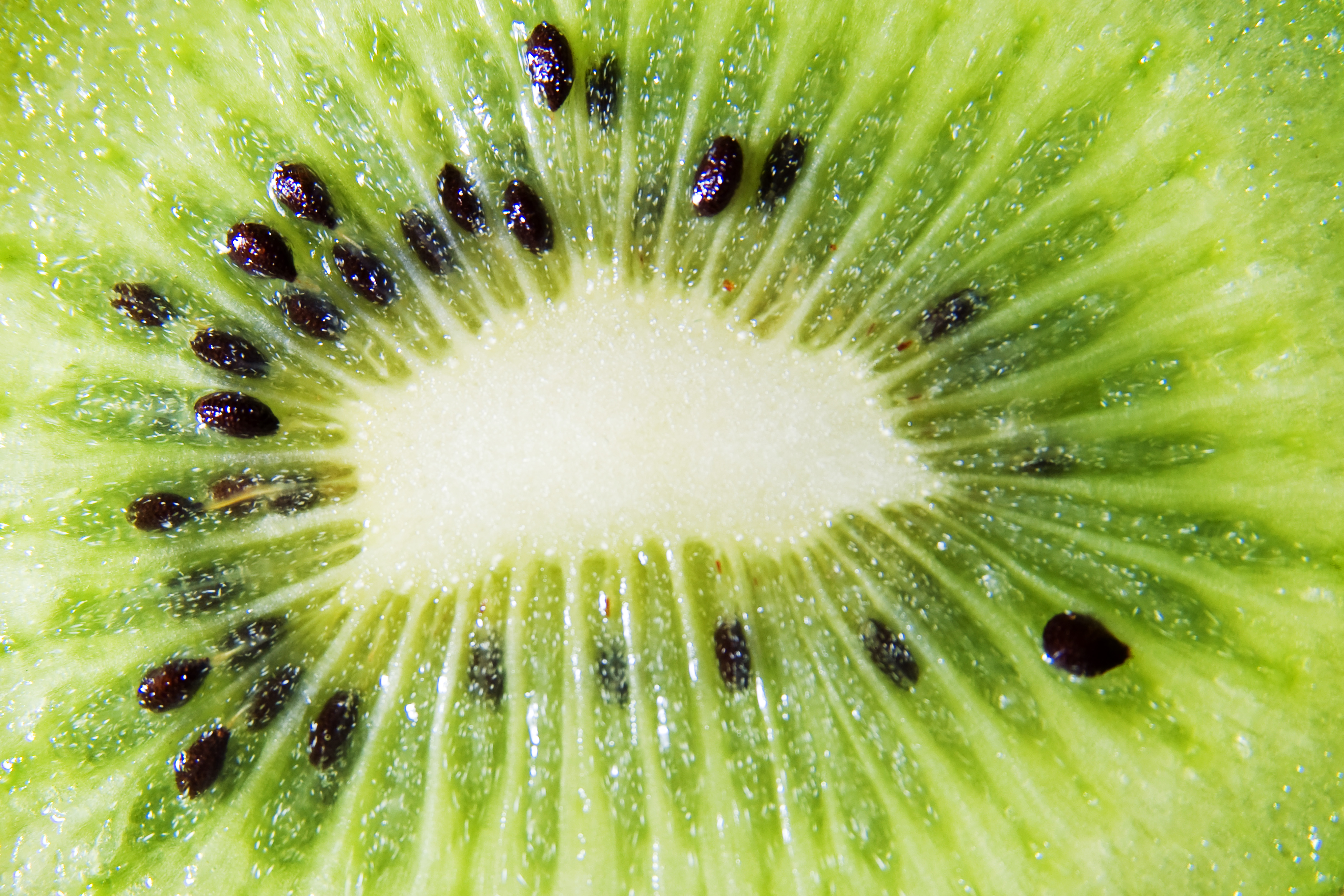 inner pulp of the kiwi (Actinidia chinensis)